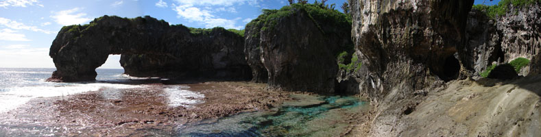 Talava arches, Niue, 2006